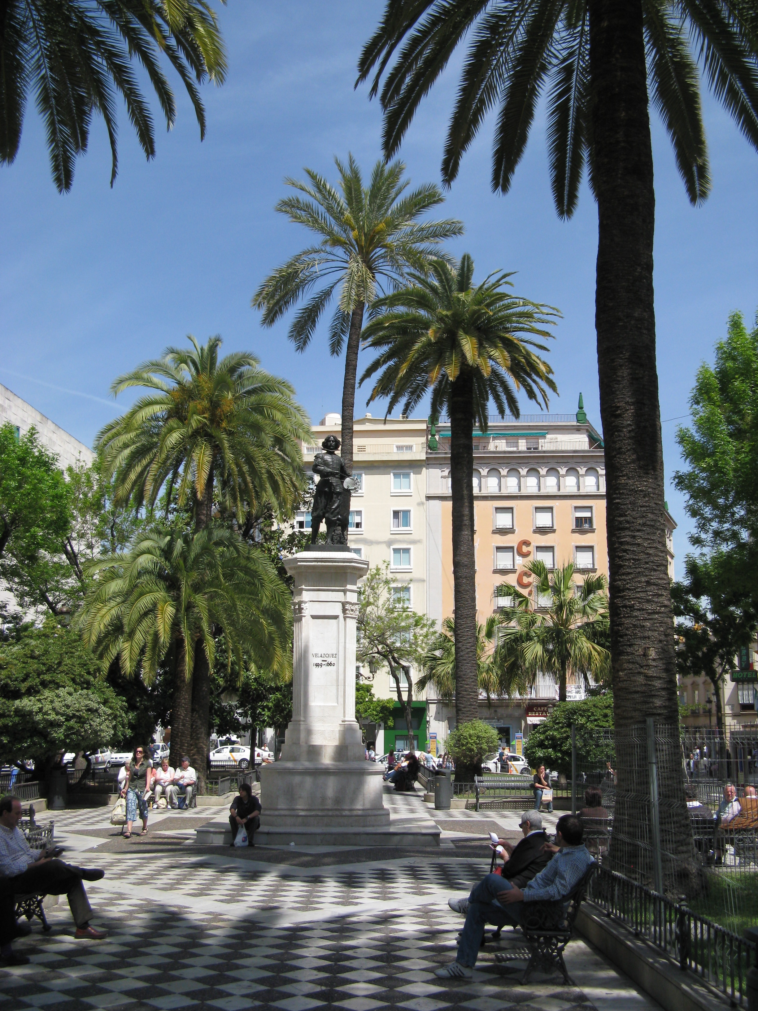 Statue of Diego Velázquez by Antonio Susillo in Seville.